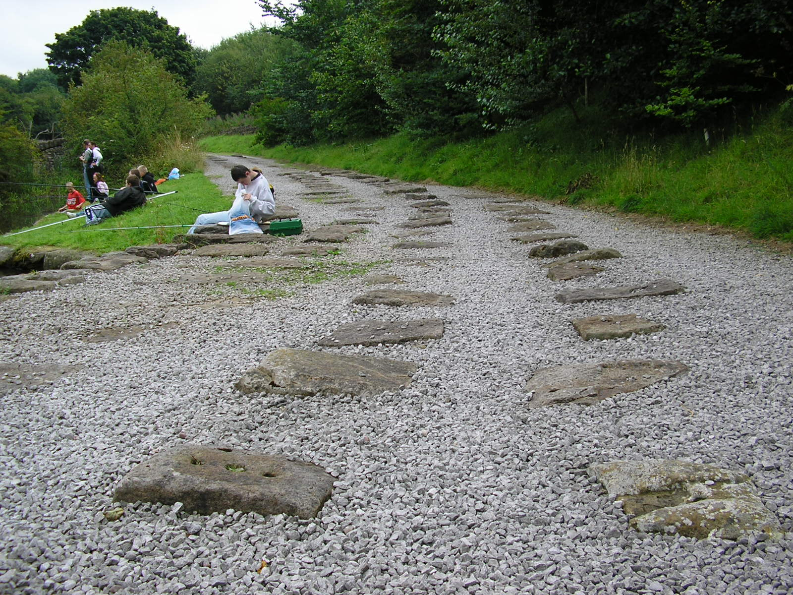 Part of Bugsworth Basin, Buxworth, Derbyshire at These are lines of stone slab sleepers which supported the L-shaped rails of the Peak Forest Tramway. The boys are fishing in the canal basin.